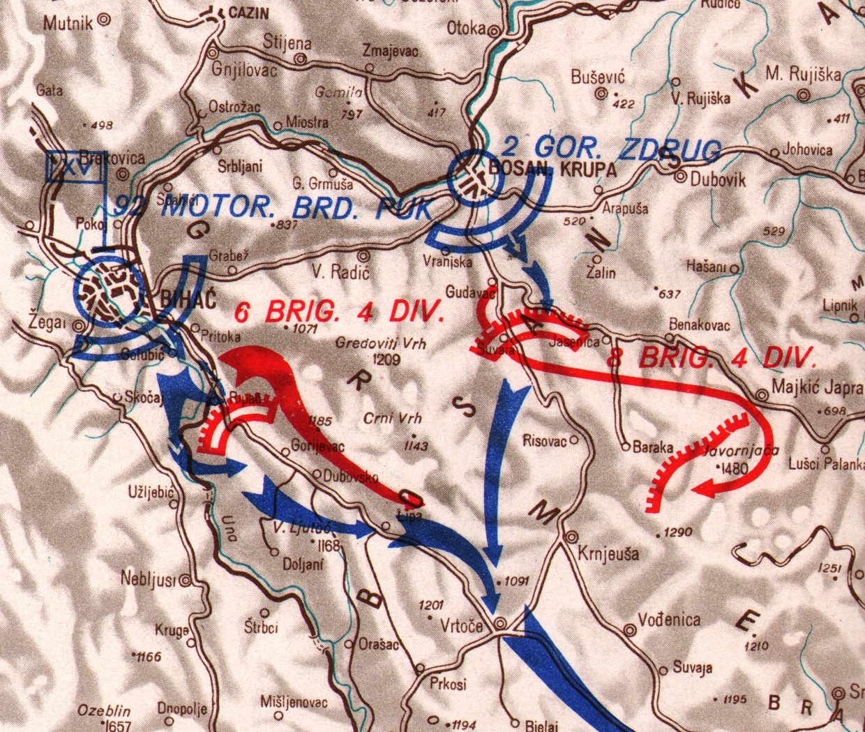 cropped map showing the deployment and lines of attack of the 92nd Motorised Regiment on 25 May 1944 during Operation Rösselsprung